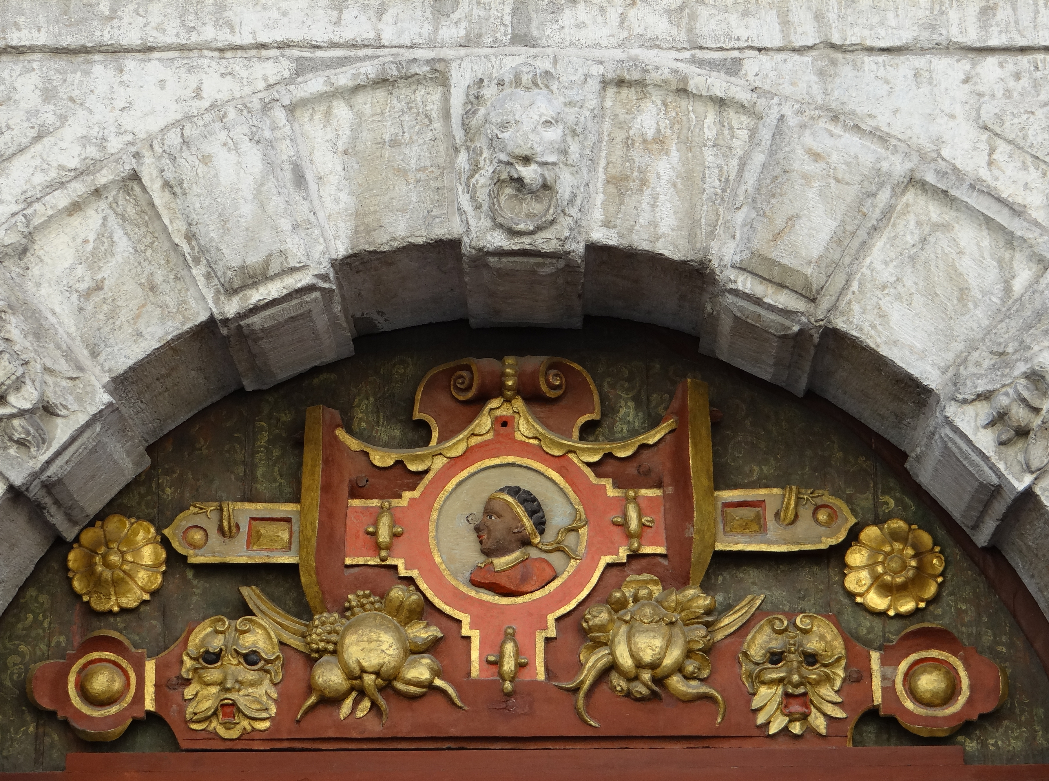 Architectural Detail. Old Town, Tallinn, Estonia